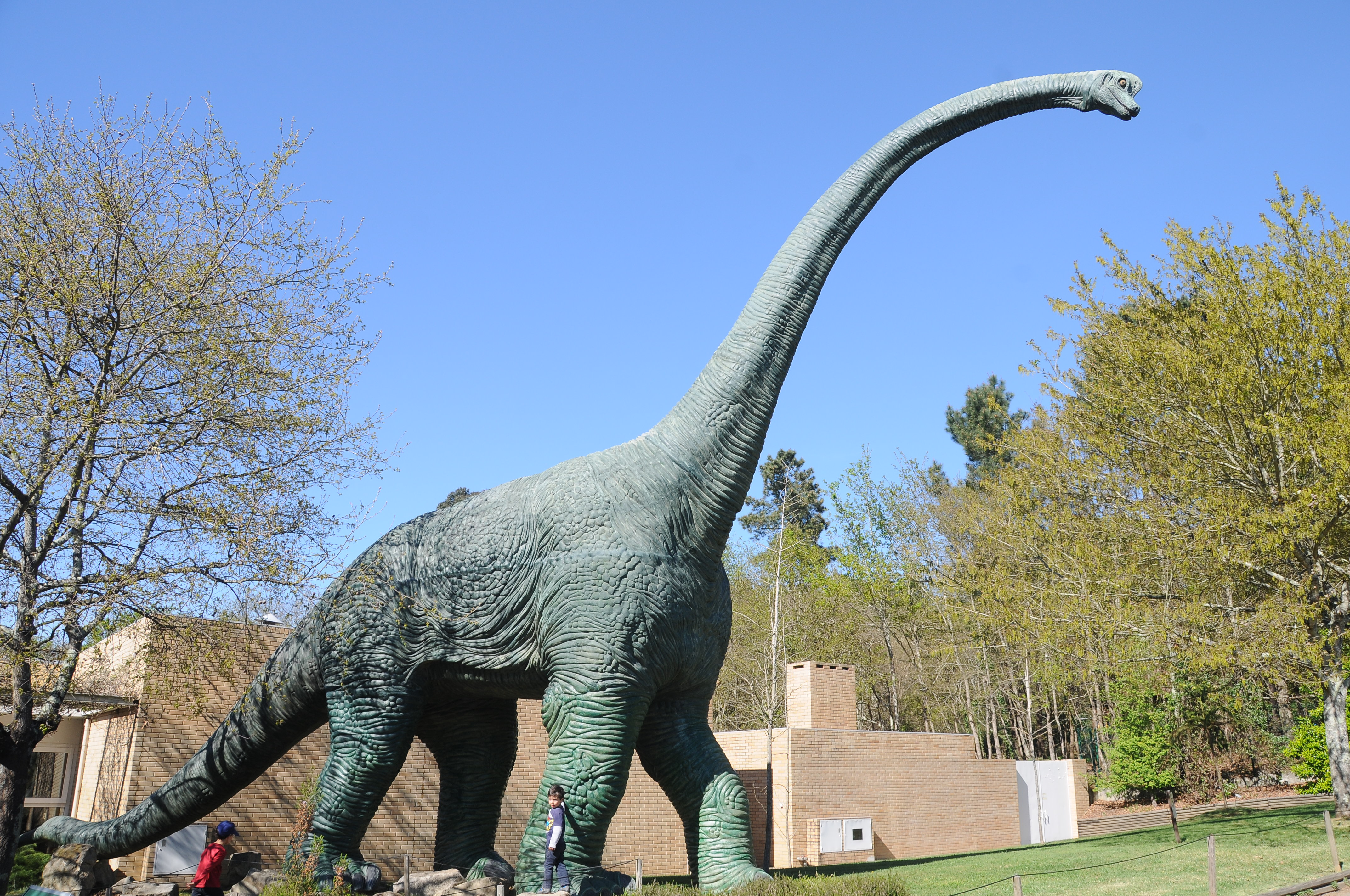 Parque biológico de Gaia in Vila Nova de Gaia, Portugal